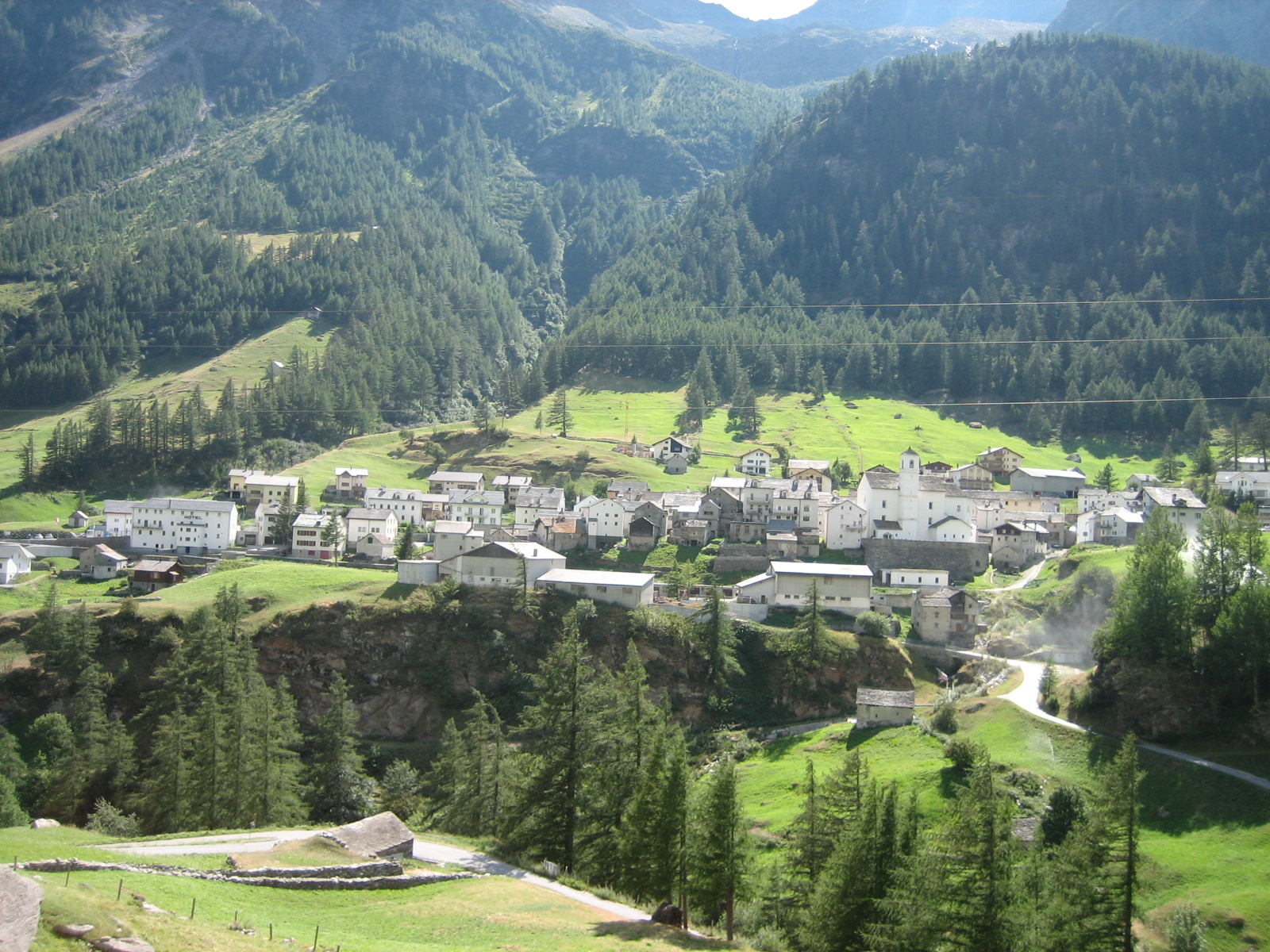 Simplon Dorf